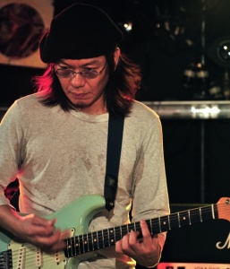 Photo of Tsuneo Imahori